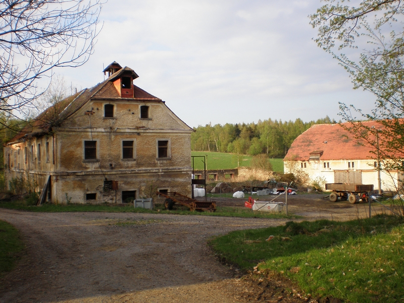 Smrčina (Aš), Czech Republic- ruins of outbuildings